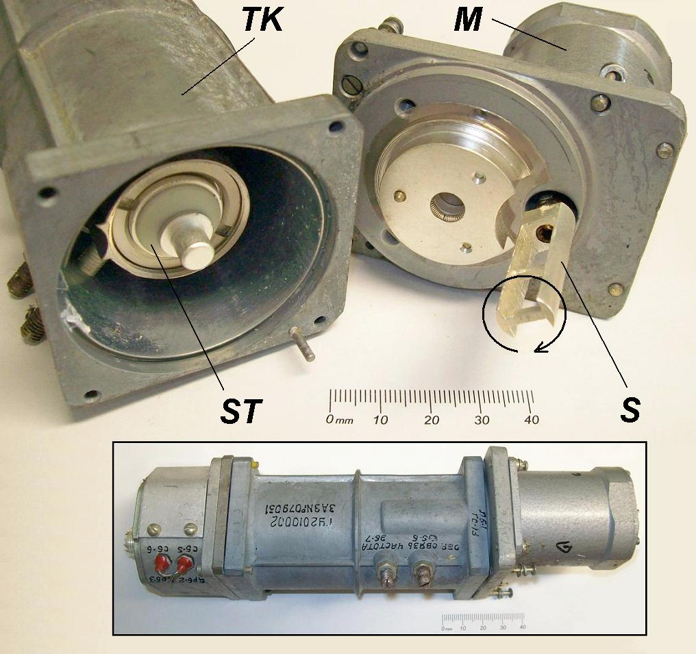 Microwave cavity from the transmitter module of a FMCW radar altimeter (Soviet Union circa 1973). (SK) the microwave cavity resonant at the output frequency. Inside the cavity is a high frequency coaxial triode vacuum tube (ST) which functions as an oscillator to generate the microwaves. The cover of the cavity has the tube's anode contact, and a motor (M) which rotates capacitive plates (S) projecting into the cavity to vary the output frequency for frequency modulation. (Bottom) cavity assembled.